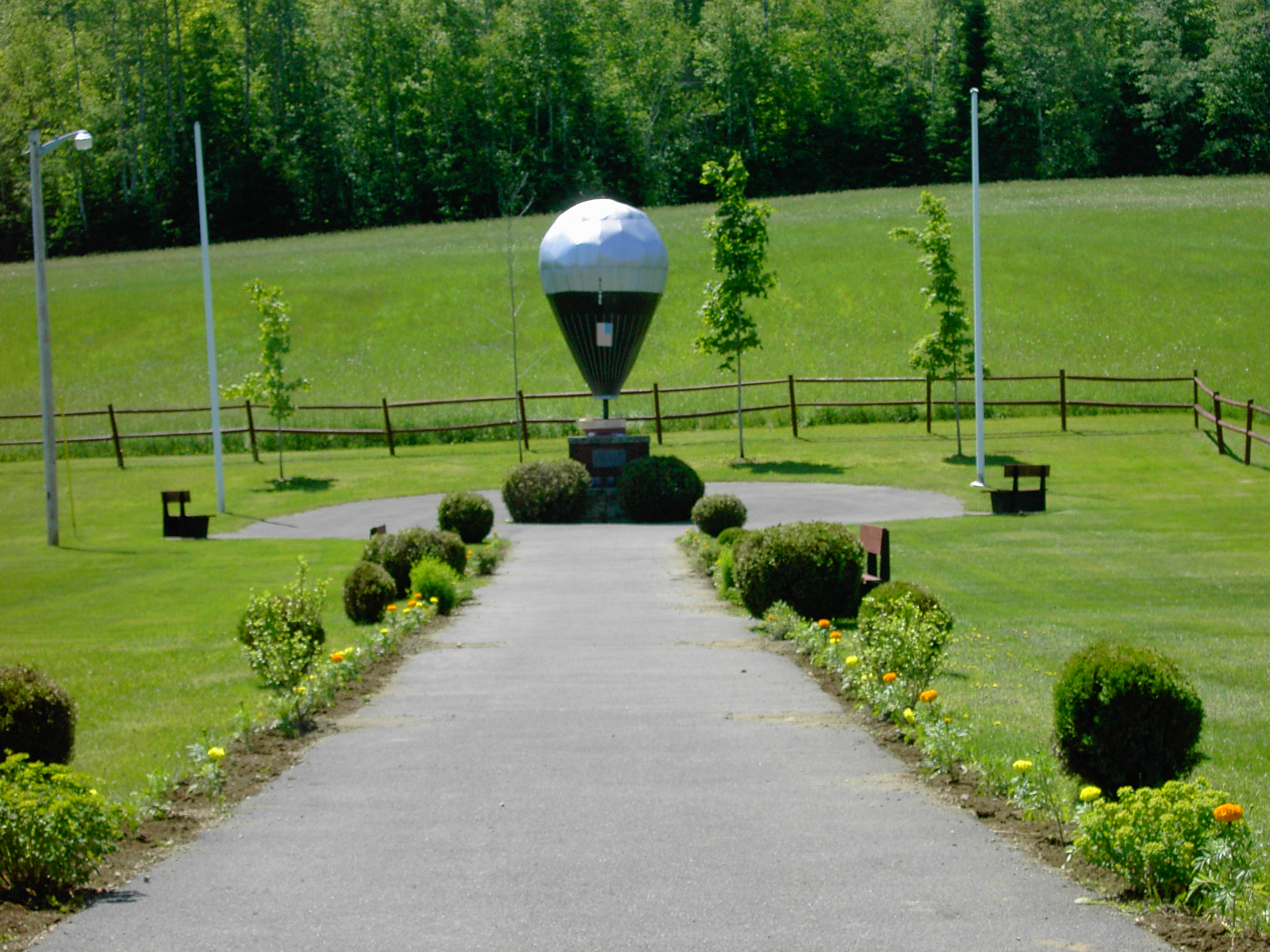 The Double Eagle II. Presque Isle, Maine Photograph by: Rubyk